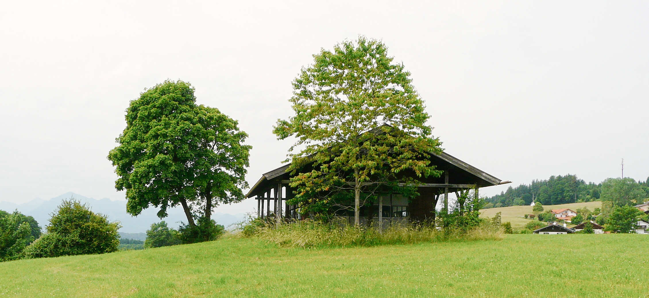 wodden pavillon over excavation site of an villa rustica (roman imperial time) near Holzhausen, municipal Bergen, district Traunstein, Upper Bavaria.